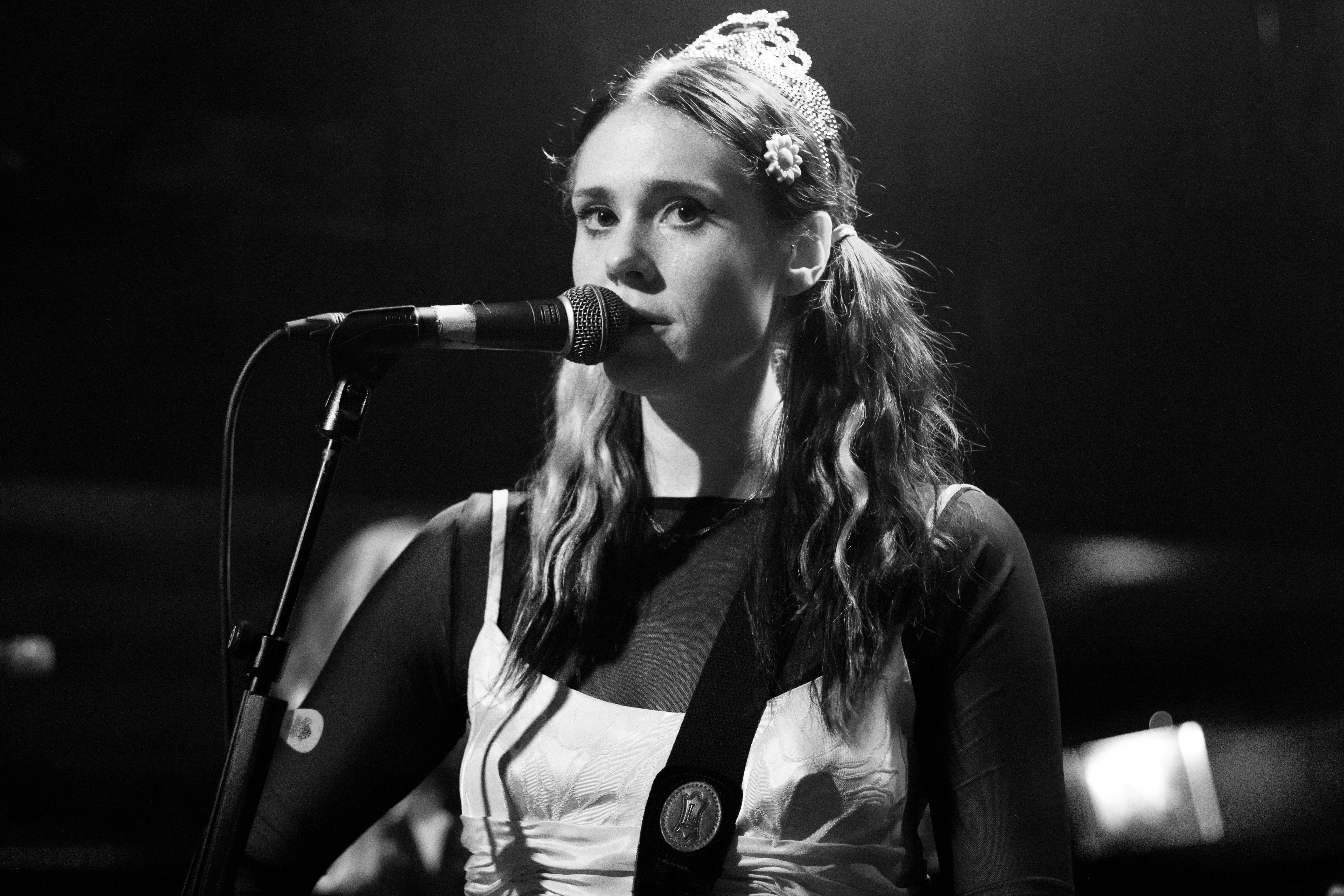 Kate Nash performing live in Bitterzoet, Amsterdam, 2012.